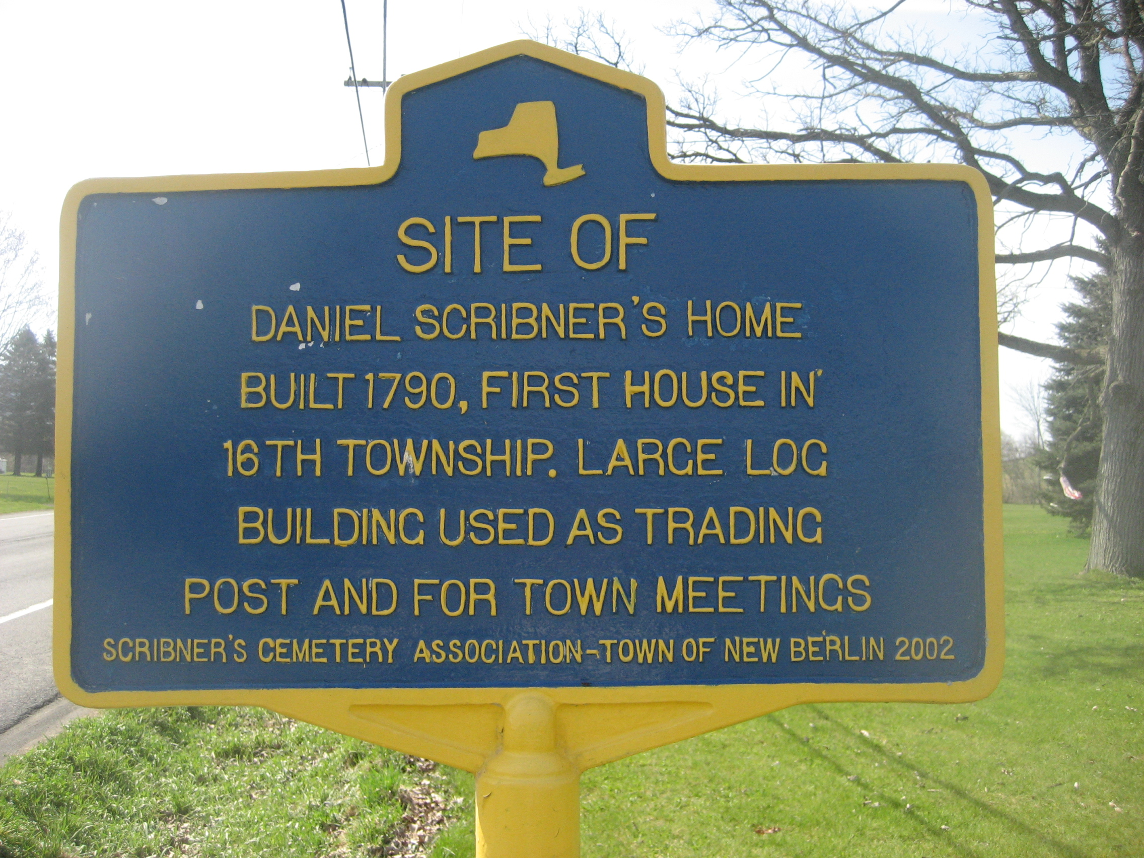 Historic marker of Daniel Scribner's home, built 1790 in New Berlin, NY . The building was also used as a trading post and town meetings.